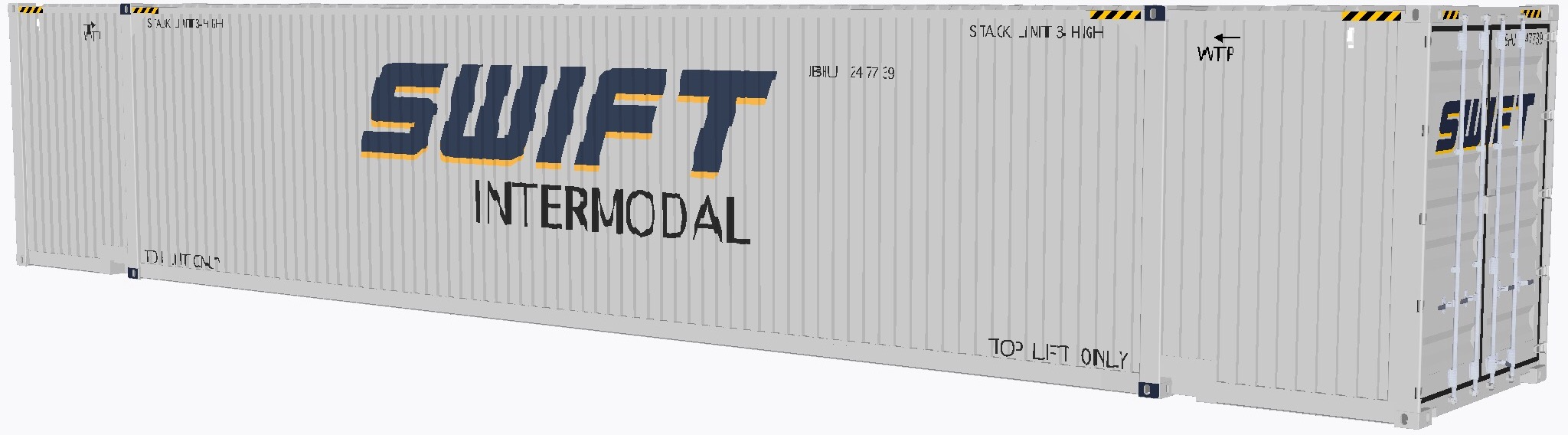 SWIFT 53 foot container